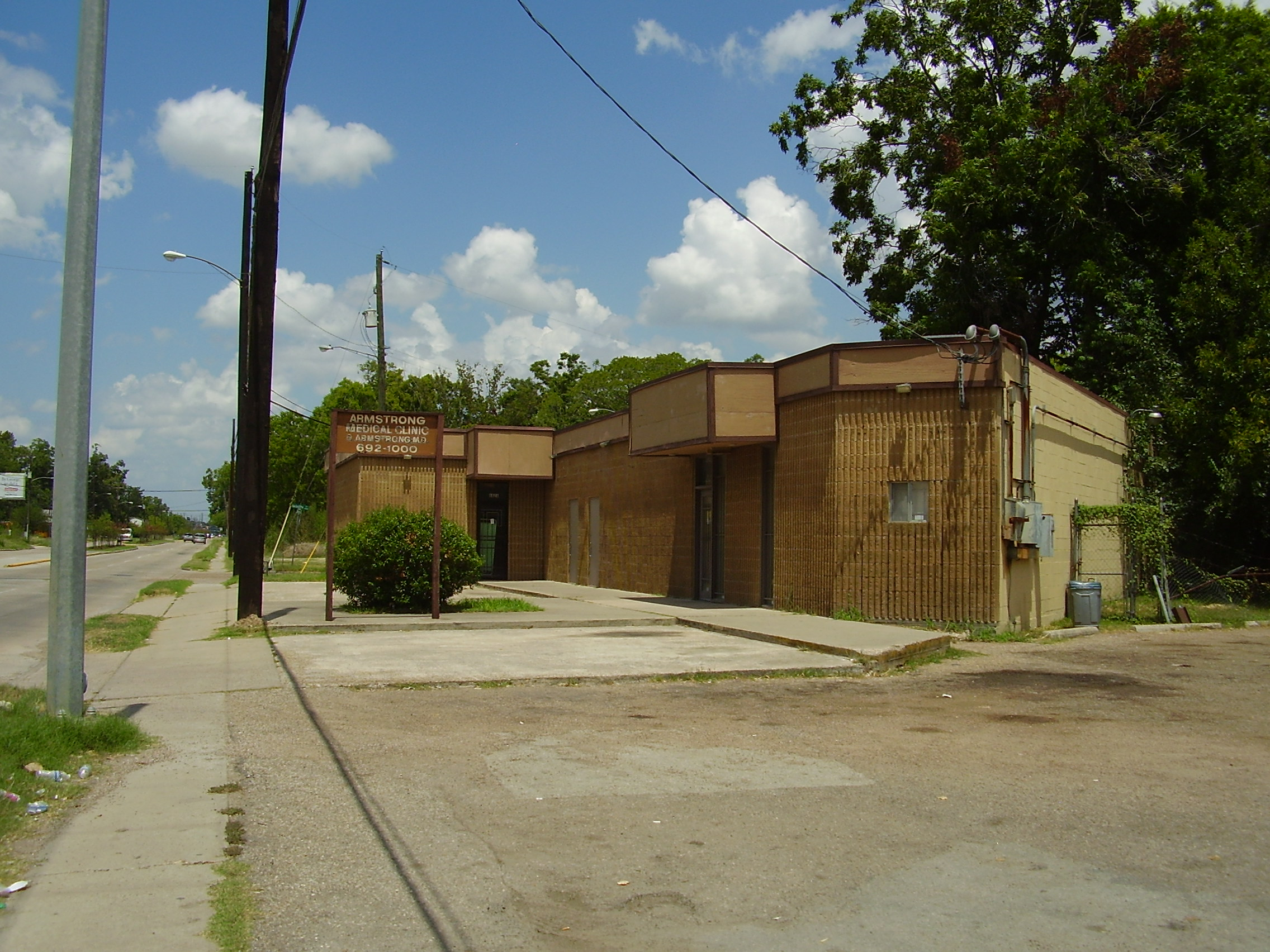 Armstrong Medical Clinic in Houston, which was raided during an investigation of Conrad Murray [1]